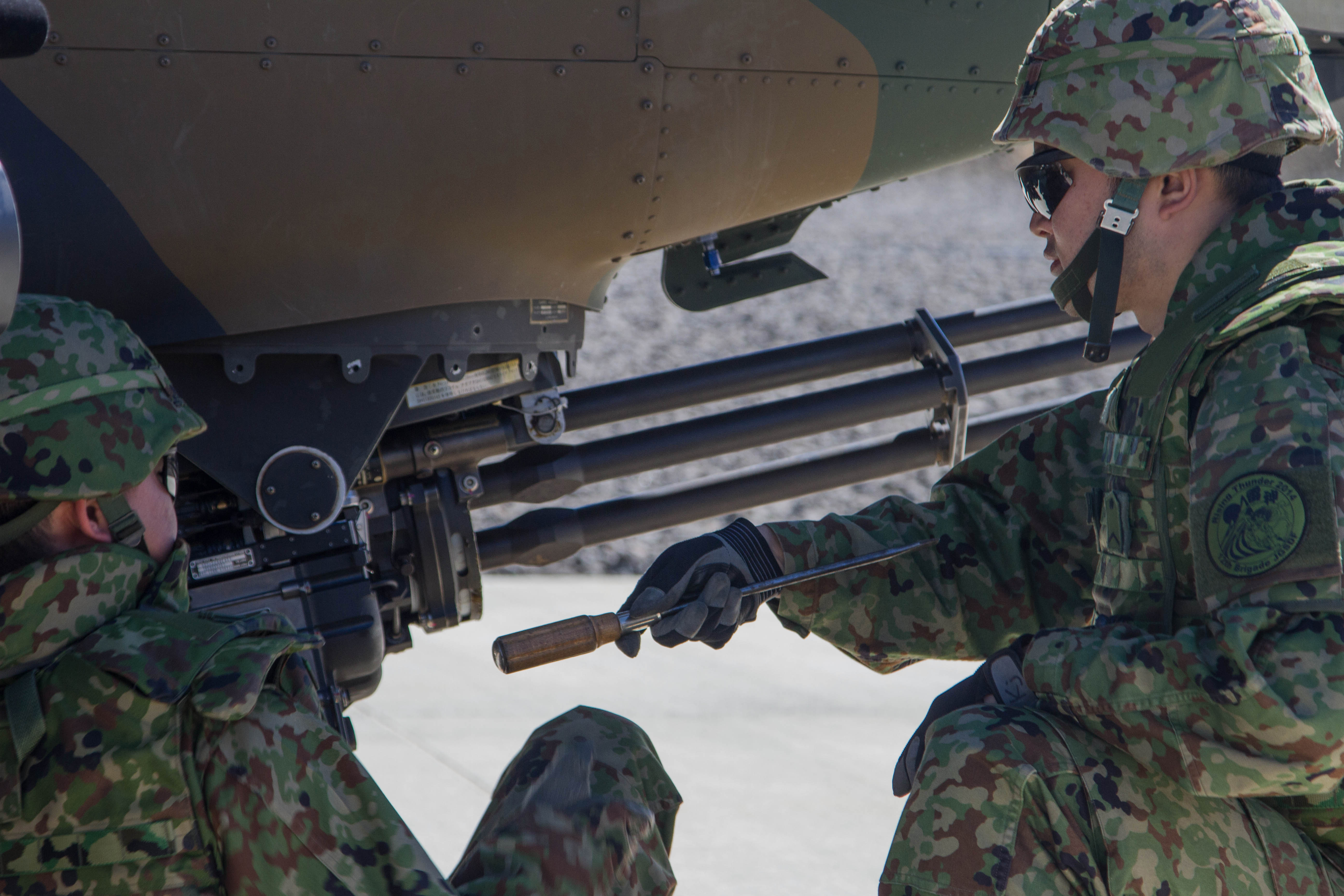 A Japan Ground Self-Defense Force member assists in maintaining the 20mm cannon on a Cobra anti-tank helicopter at a forward aircraft refueling point at Yakima Training Center, Wash., Sept. 4. The exercise was part of Operation Rising Thunder, a combined operation between the Army and Japan designed to increase interoperability between the two nations. (U.S. Army photo by Sgt. Cody Quinn, 28th Public Affairs Detachment) Unit: 28th Public Affairs Detachment